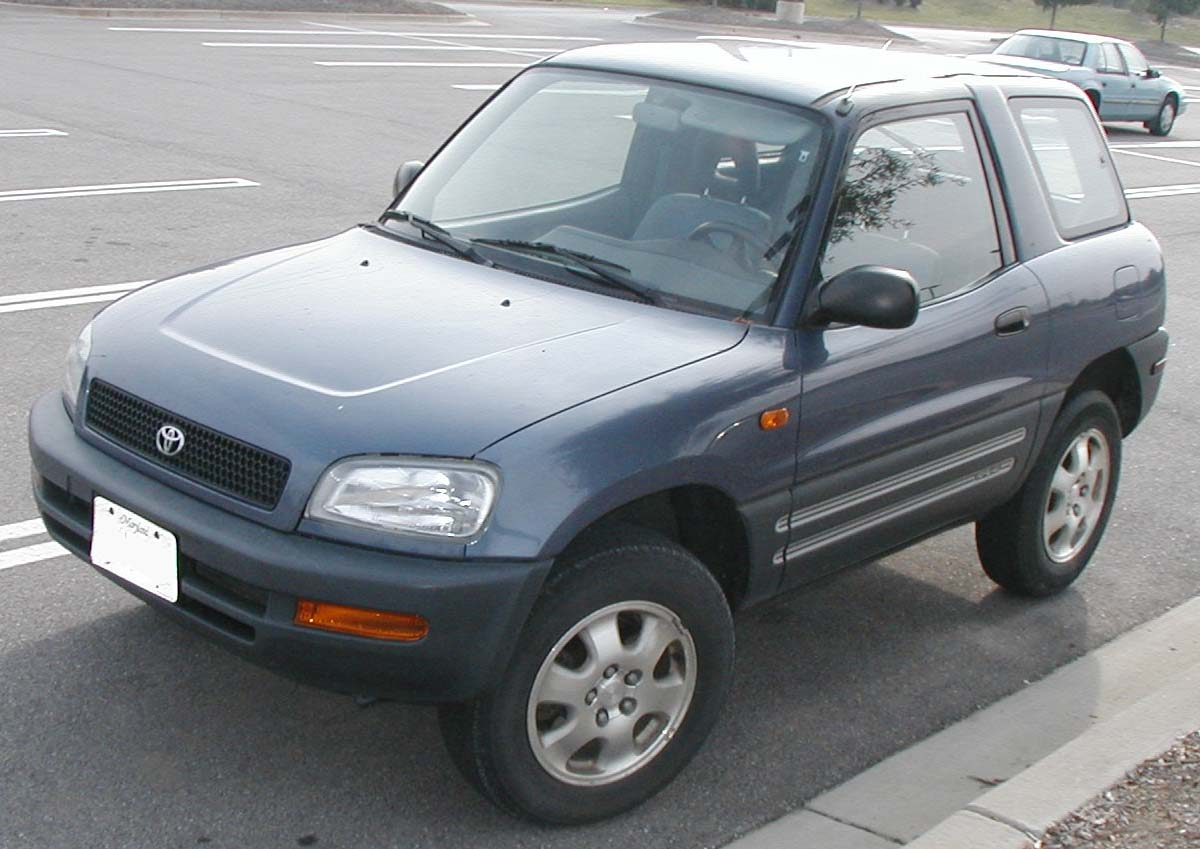 1996-1998 Toyota RAV4 2-door photographed in USA.